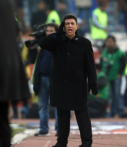 78th derby of Tehran, Esteghlal vs Perspolis.